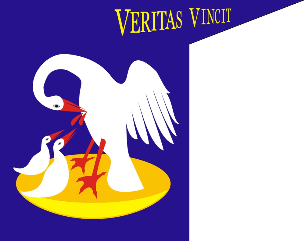 Rectagular version of the standard of bohemian hussite faction from 15th century – the Orphans (Czech: Sirotci)